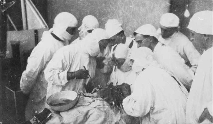 ADELAIDE HOSPITAL: Sir H. Simpson Newland performing an operation